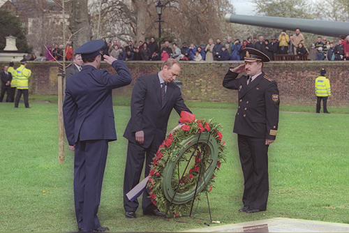 LONDON. Laying a wreath at the monument to Soviet soldiers and civilians killed in World War II. This Soviet War Memorial is in Geraldine Mary Harmsworth Park (area surrounding the Imperial War Museum)